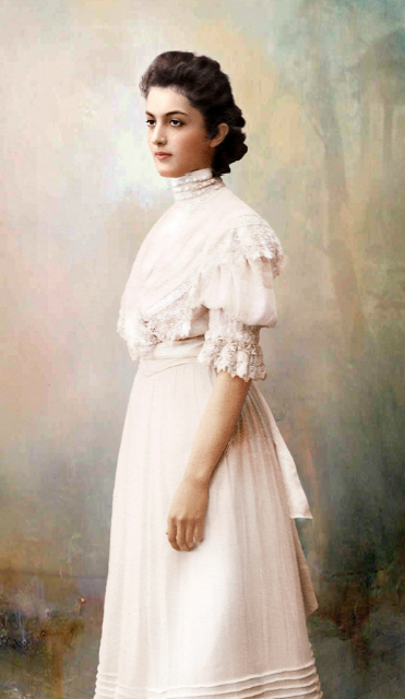 Princess Mary Shervashidze by Elena Mrozovskaya